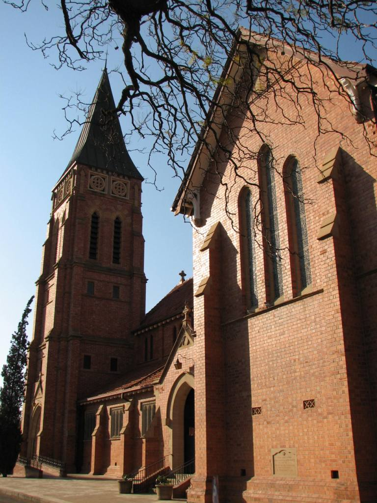 Exterior view of St Cyprian's Cathedral, Kimberley, 2005